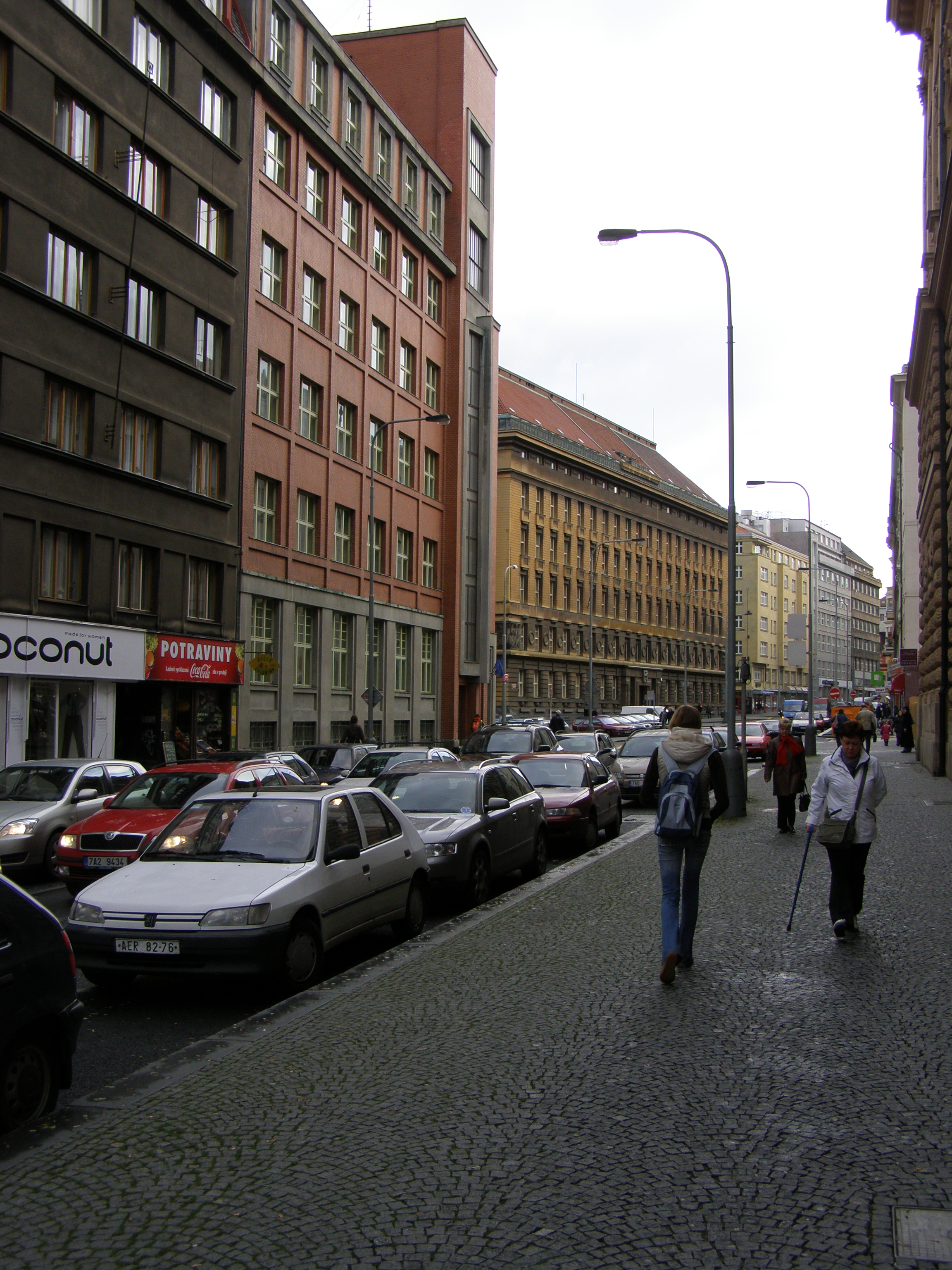 The House of Agriculture extension, Prague, Czech Republic.